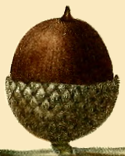 Acorn detail from Histoire des arbres forestiers de l'Amérique septentrionale: Quercus nigra - water oak.Original caption: Quercus aquatica. Water Oak.